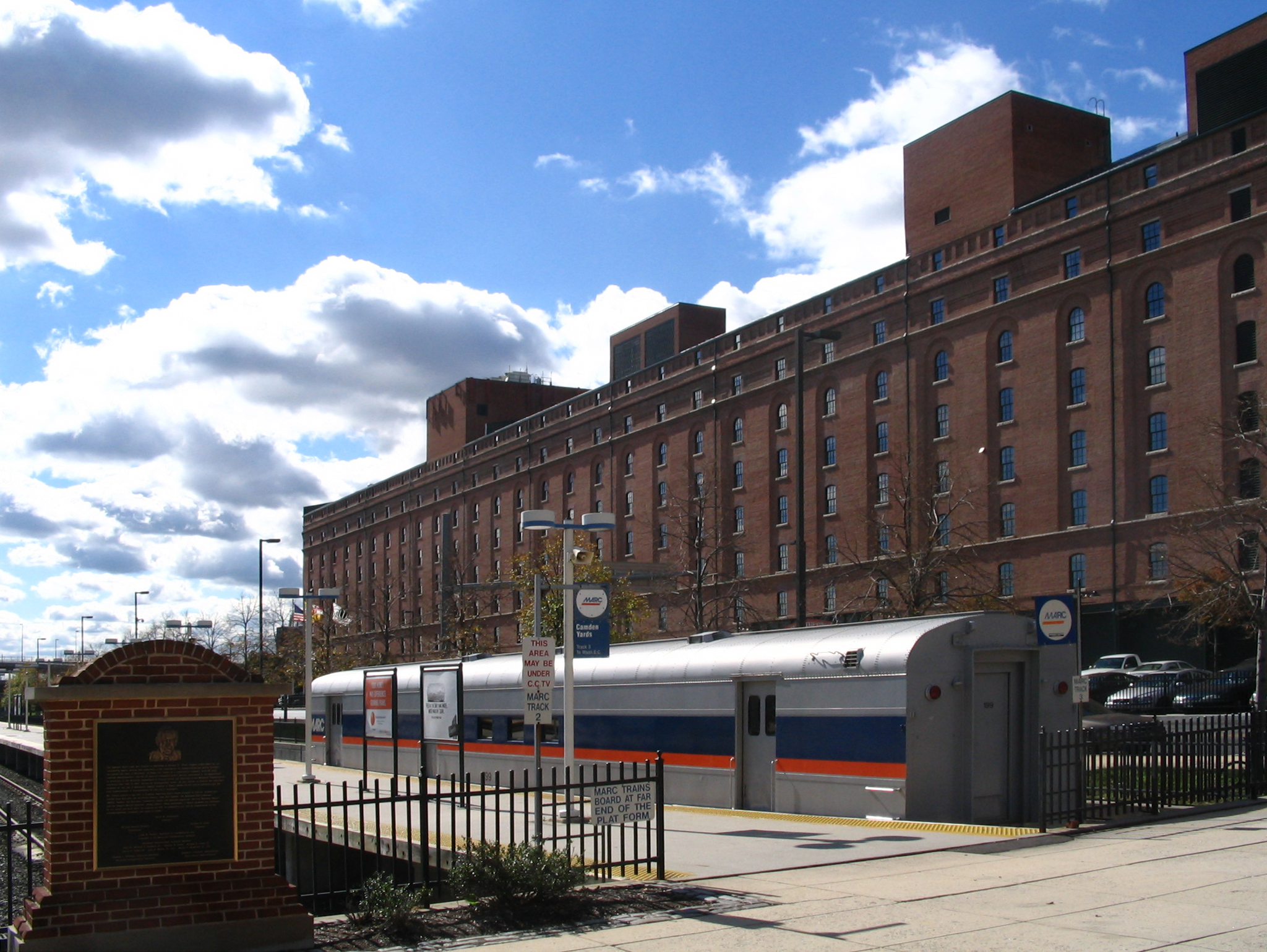 MARC combination baggage/passenger coach parked on a stub track at Camden Station, with the B&O Warehouse behind